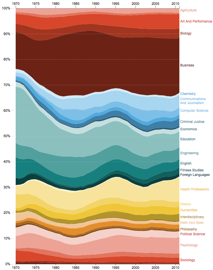 Share of all bachelor's degrees awarded by field